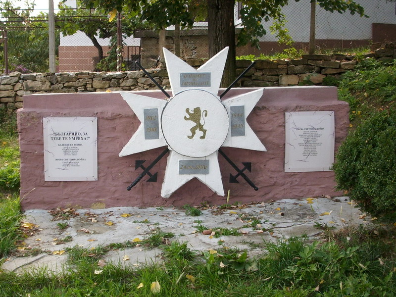 War memorial in village Baba Tonka, Bulgaria. Erected in 2006.